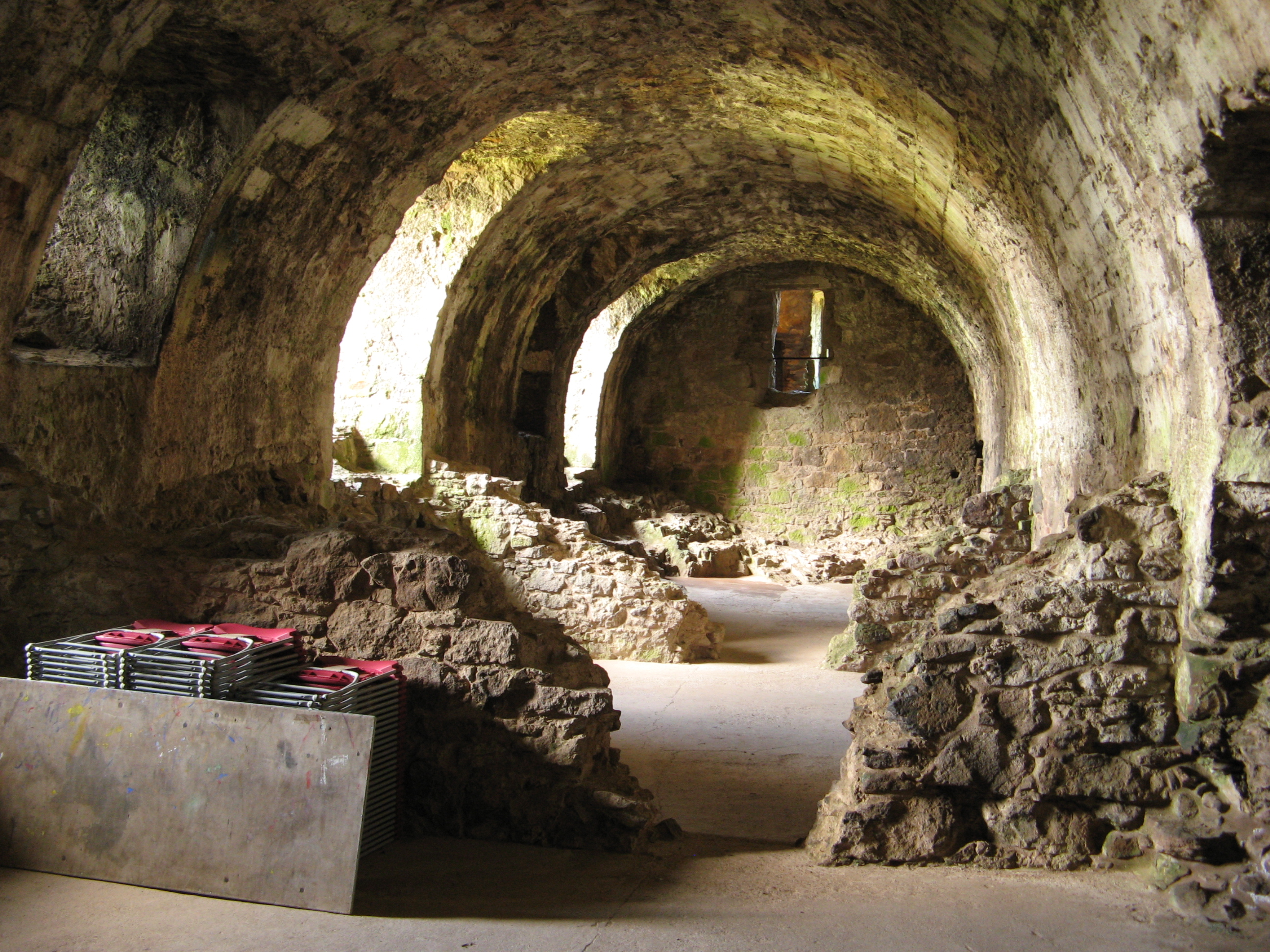 Dirleton Castle, East Lothian, Scotland. Vaulted cellars beneath the 14th century east range.